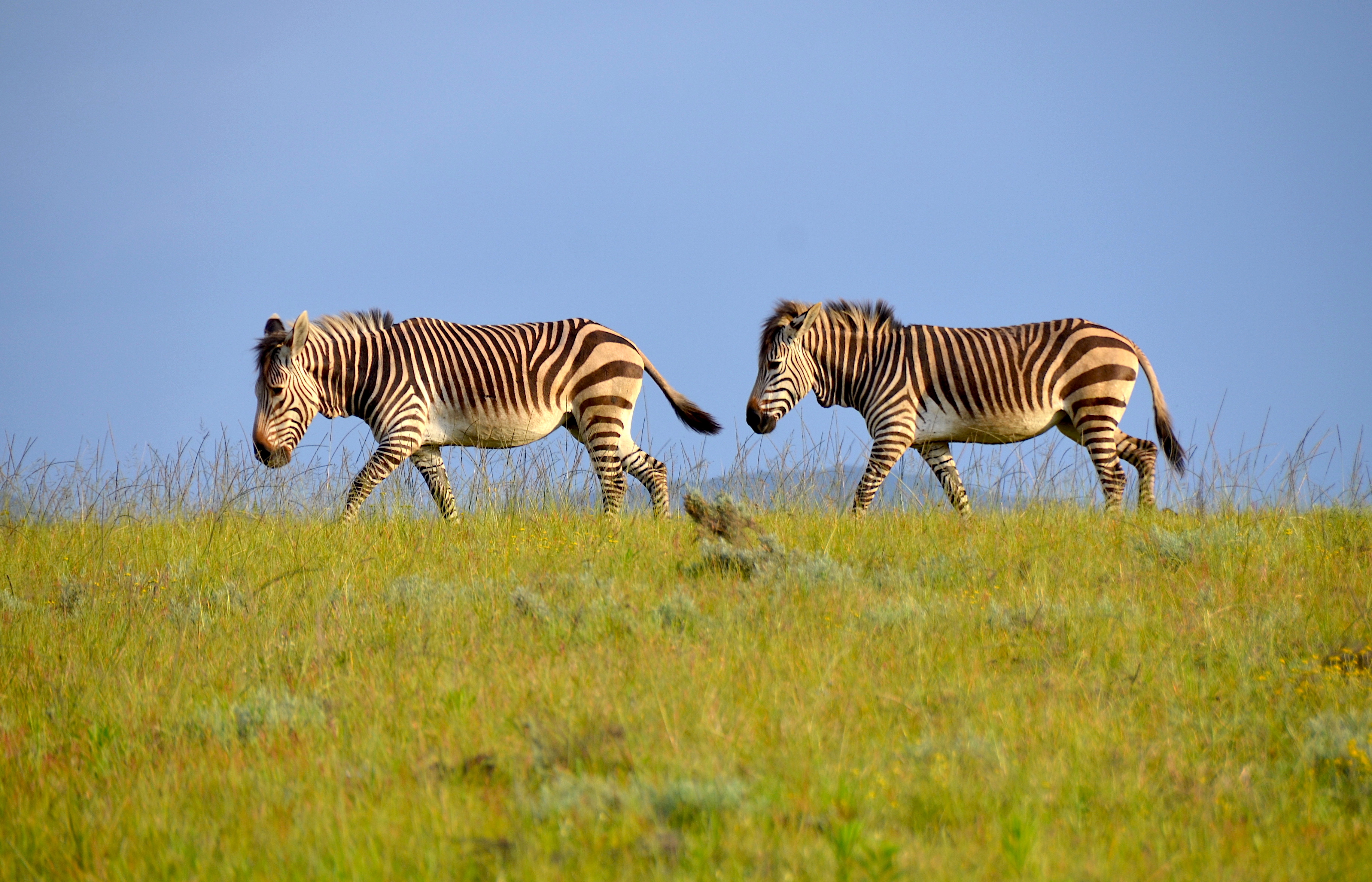 Mountain zebra at Game reserve Botlierskop in South Africa